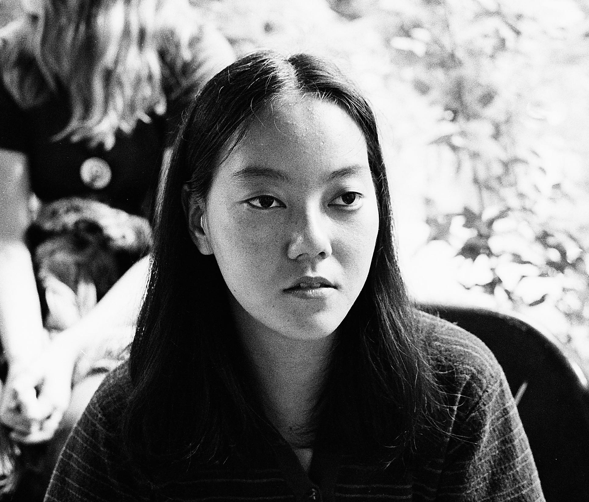 Evelyn Hu-DeHart, at a party she often held in the home she shared with her husband on West 17th Street, Austin, TX, while she was working on her PhD at The University of Texas.